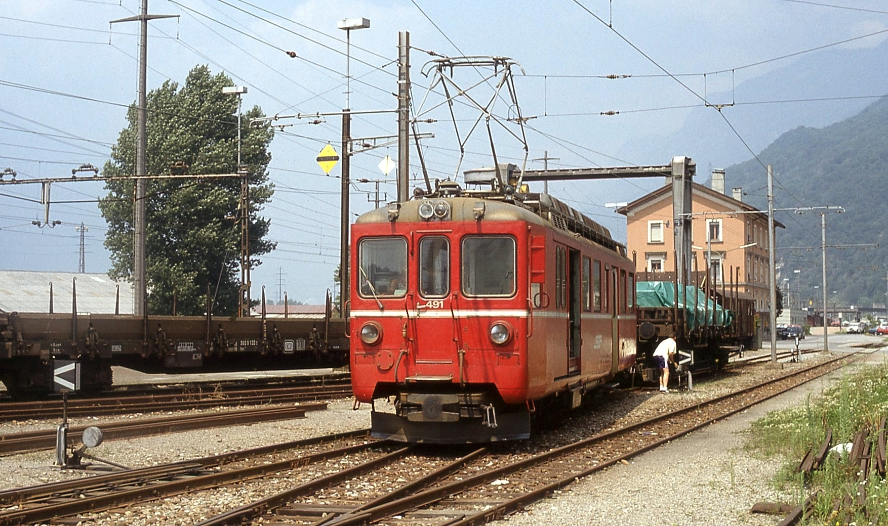 RhB railcar 491 shunting freight cars at Castione-Arbedo station.